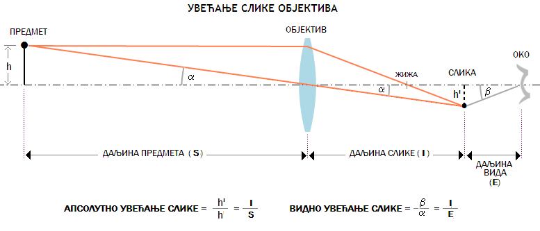 УВЕЋАЊЕ СЛИКЕ ОБЈЕКТИВА